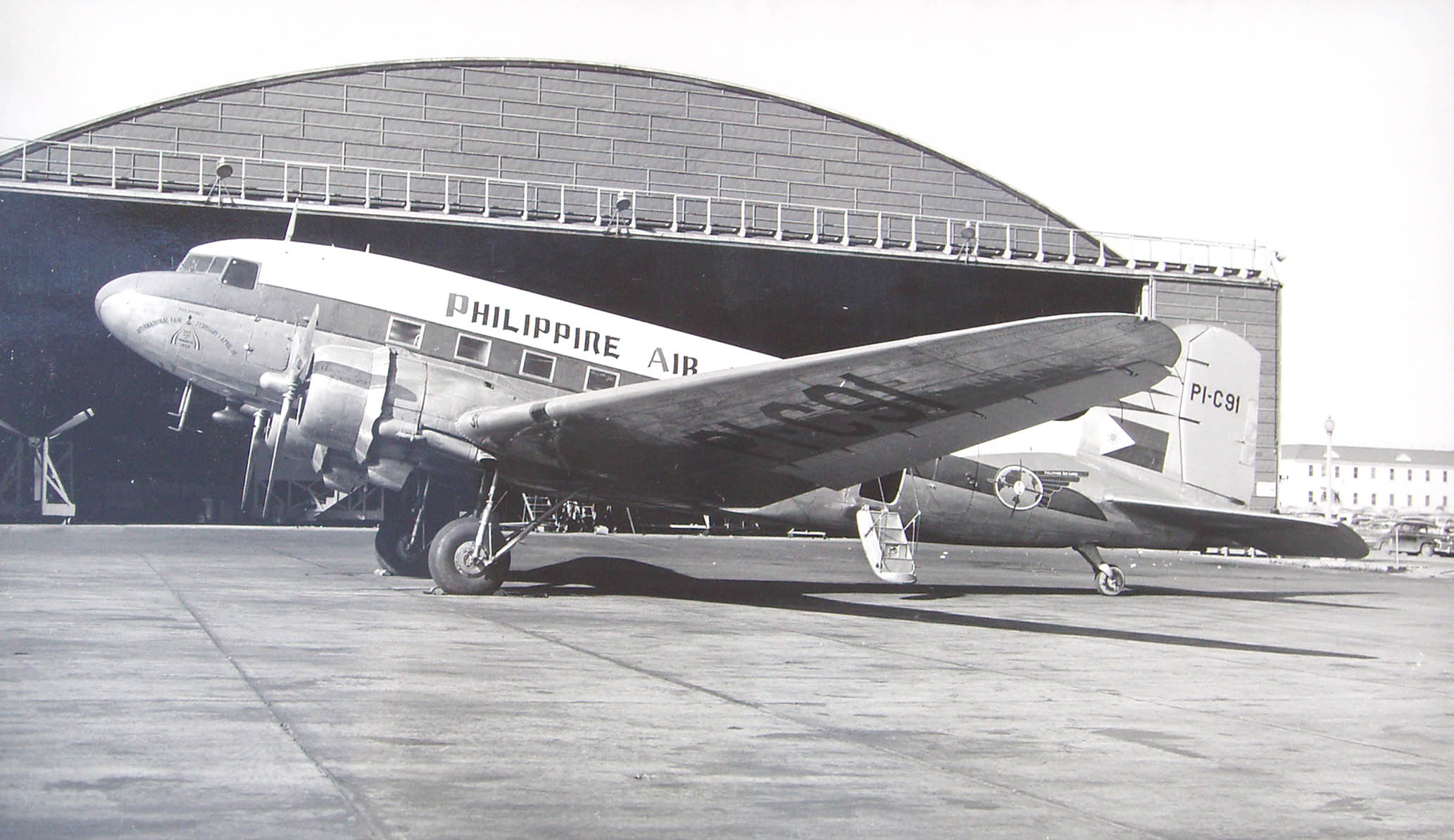 Oakland, California, February 1953. Fresh out of overhaul at Oakland with a beautiful paint job.